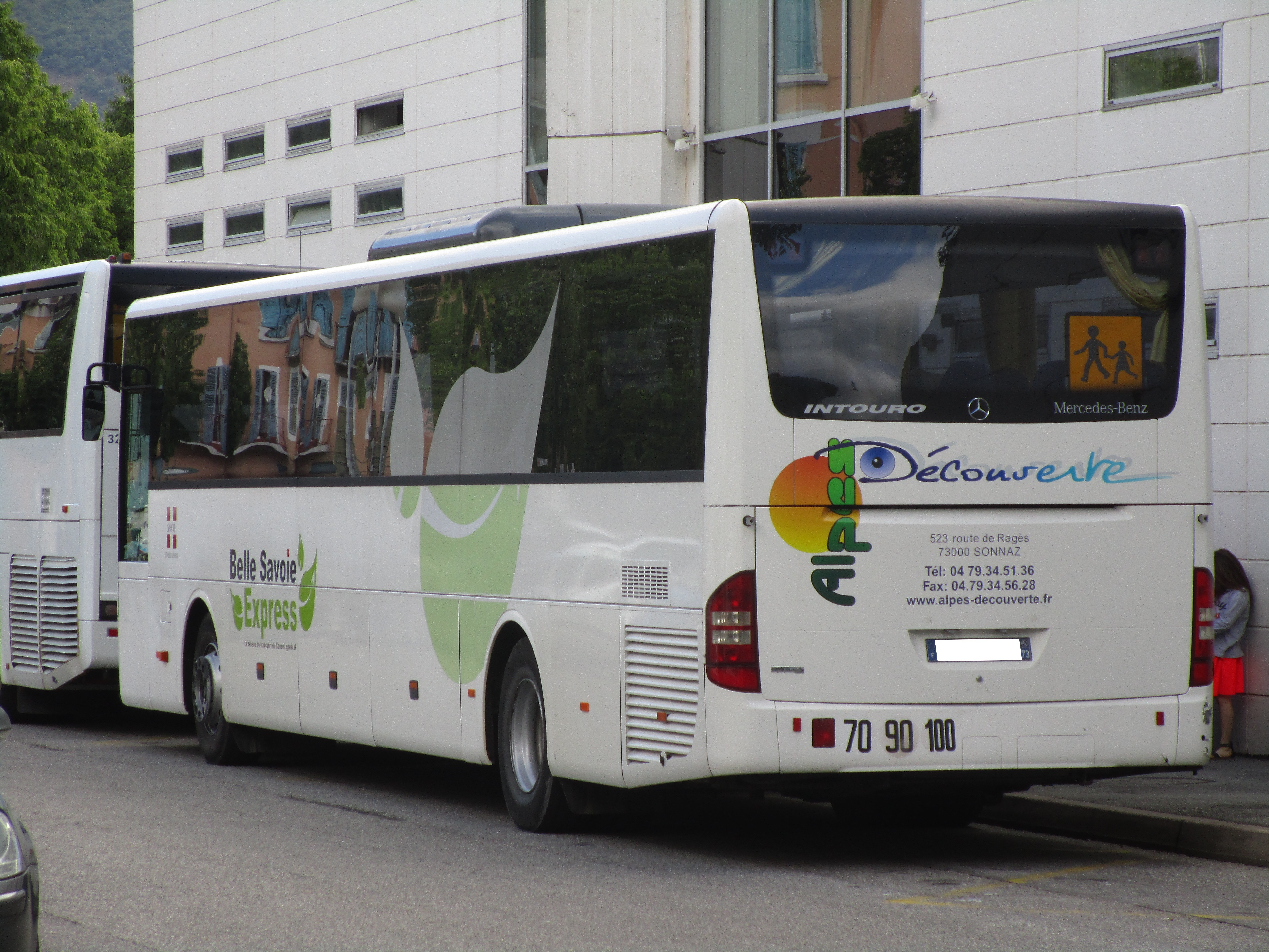 A Mercedes-Benz Intouro (Alpes Découverte) in the Rue Henri Oreiller (Chambéry, France) on June 7, 2017.